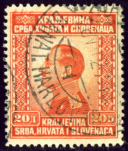 Yugoslavia, Kingdom of Serbs, Croats and Slovenes, 20 dinar bilingual issue 1924 stamp (King Alexander) cancelled at BANATSKI KARLOVAC in 1927 (Banat Serbia).